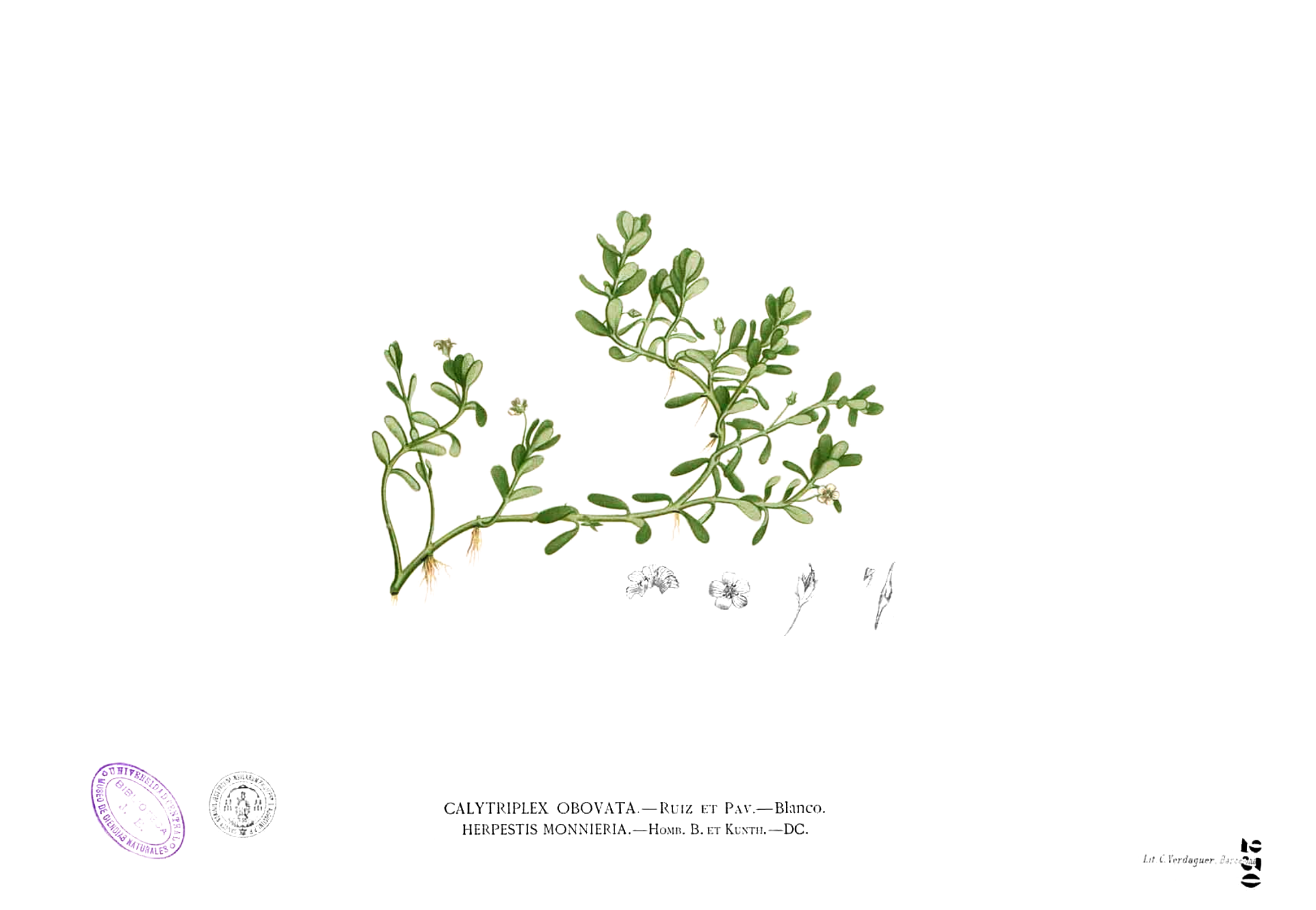 Plate from book